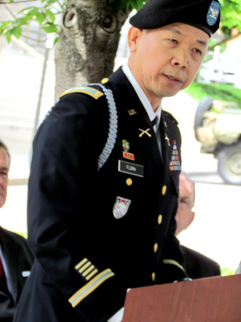 United States Colonel Lapthe Flora official photo at the The National Infantry Museum Fort Benning Georgia